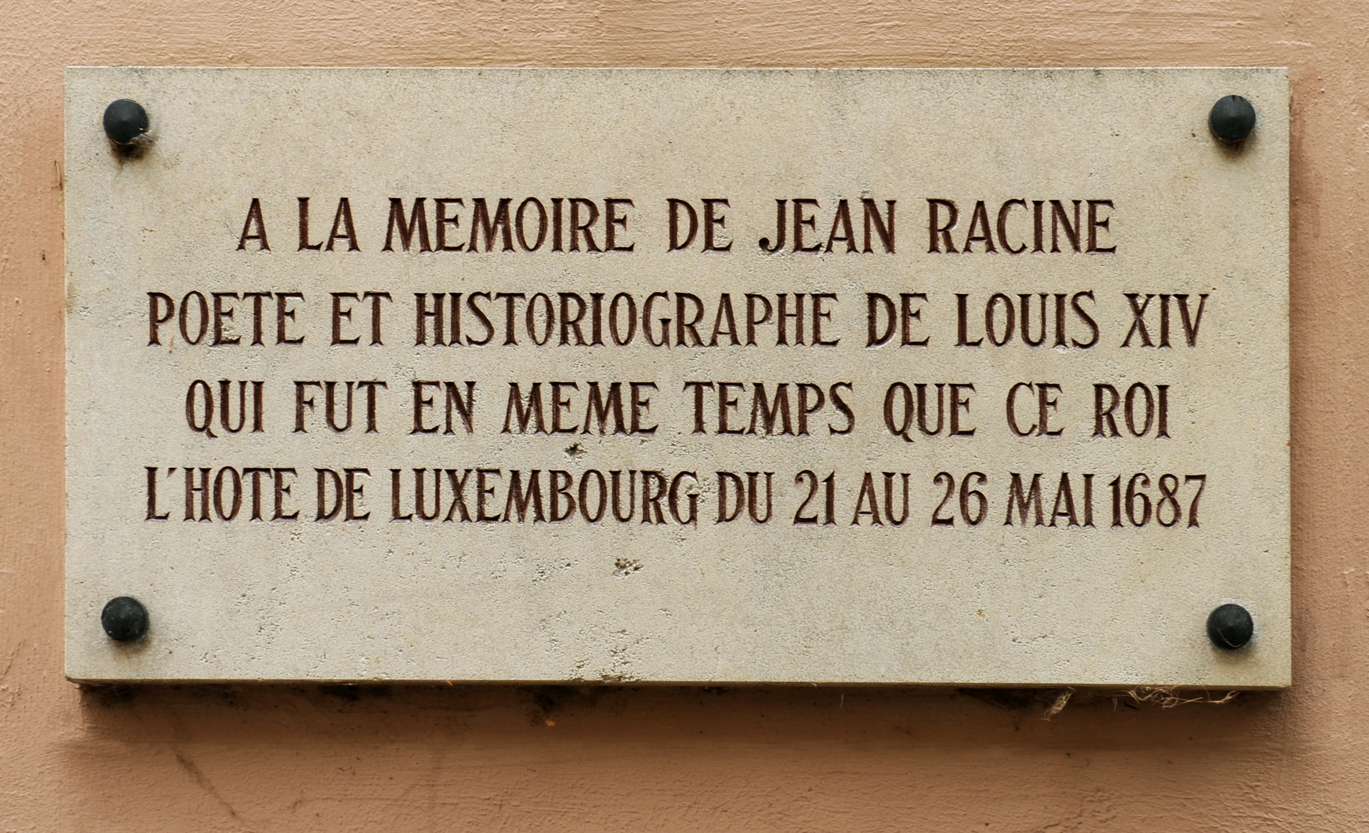 Luxembourg City: Plaque commemorating the stay of Louis XIV and Jean Racine in Luxembourg in 1687.